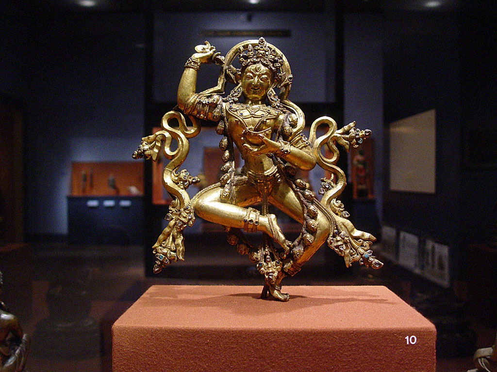 Central Tibet, Densatil Monastery (?), Himalayas Dancing Vajravarahi/Vajrayogini, circa 15th century Sculpture; Metal, Gilt copper alloy inlaid with gemstones; traces of pigment, 11 1/4 x 9 3/4 x 3 in. (28.58 x 24.77 x 7.62 cm) Purchased by the Los Angeles County Museum of Art Board of Trustees in honor of Dr. Pratapaditya Pal, Senior Curator of Indian and Southeast Asian Art, 1970-95 (AC1996.4.1) Wikipedia Loves Art at the Los Angeles County Museum of Art This photo of item # AC1996.4.1 at the Los Angeles County Museum of Art was contributed under the team name "Team_A" as part of the Wikipedia Loves Art project in February 2009. Los Angeles County Museum of Art The original photograph on Flickr was taken by howcheng—please add a comment to the original Flickr page whenever a use has been made on Wikipedia or another project. Project galleries on Flickr: this institution, this team